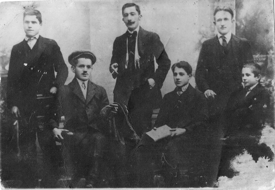 Young Bosnia members. Standing: 1. ?, 2. Bogdan Žerajić, 3. ?; Sitting: 1. Jovo Princip (Gavrilo's older brother), 2. Gavrilo Princip, 3. Nikola Princip (little brother of Gavrilo).